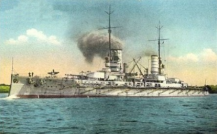 Coloured photo of the German battleship SMS Kaiserin.